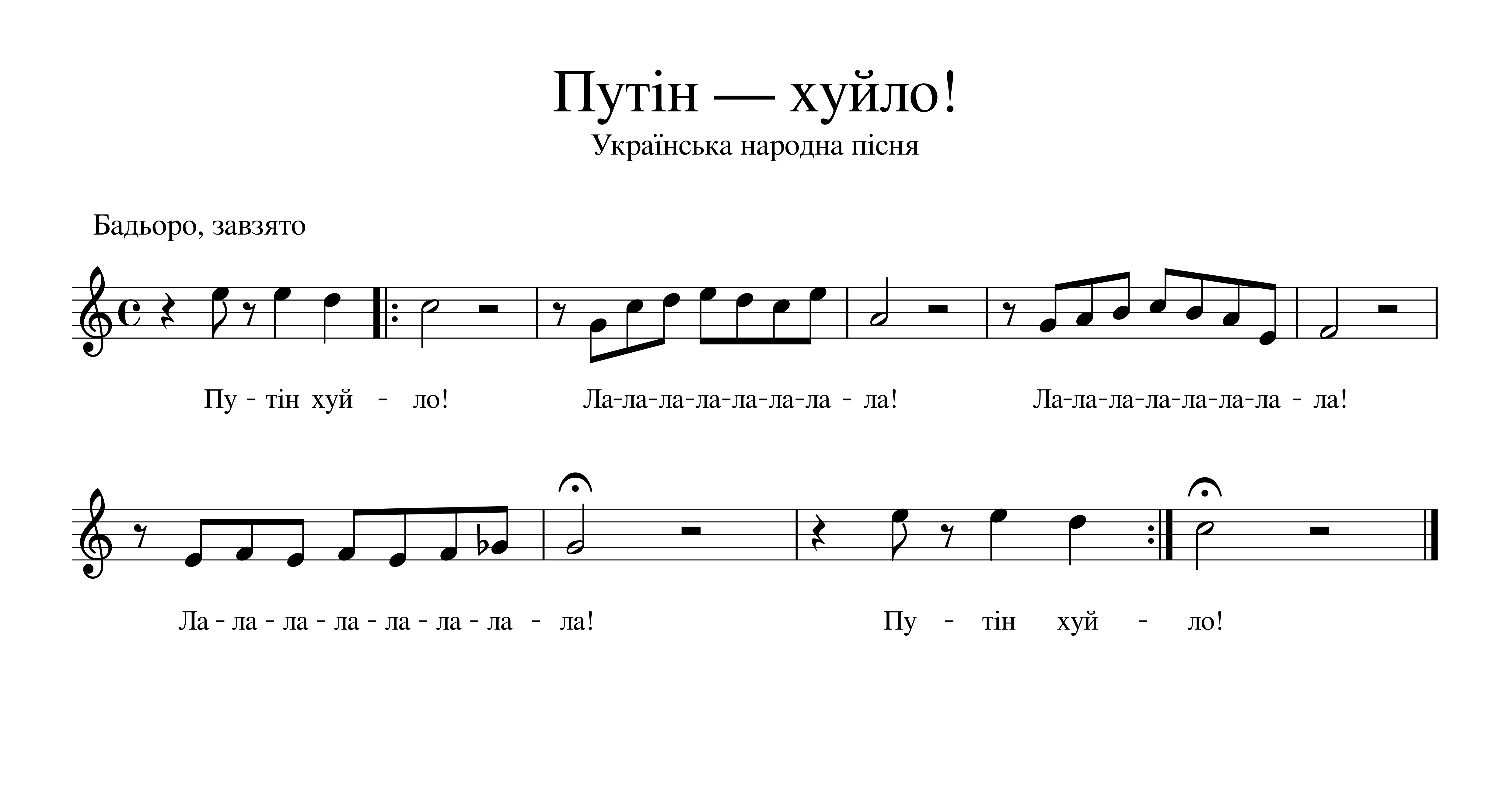 Ukrainian Folk Song “Putin—huilo!” Sheet Music